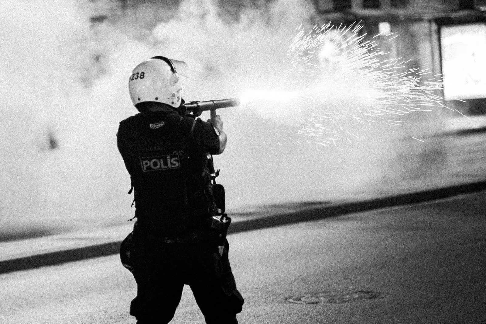 Police action during Gezi park night protests in Istanbul. Events of June 15, 2013.